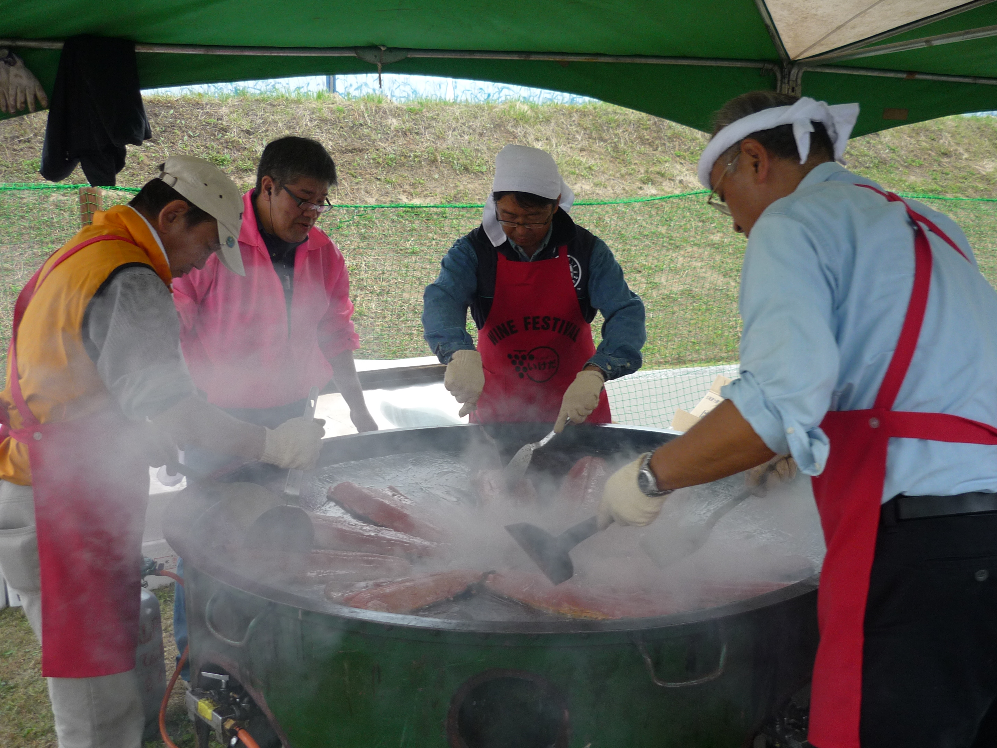 Having a fish BBQ